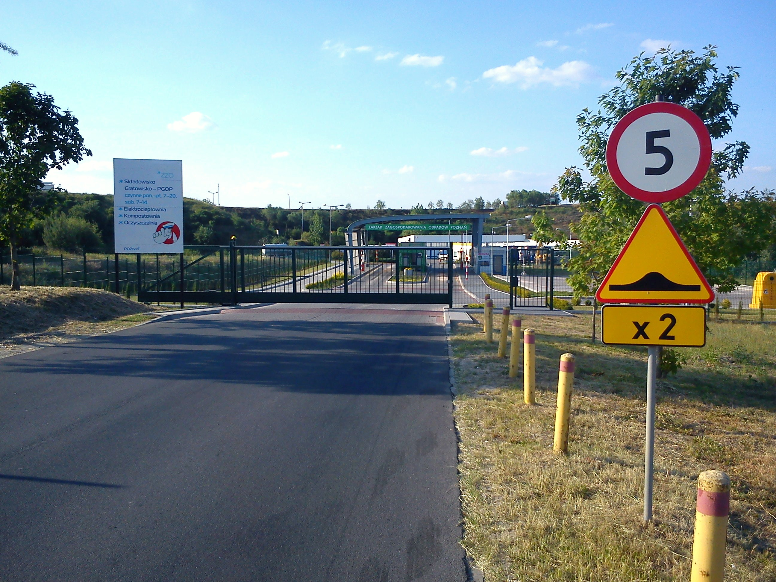 Landfill - Poznan/Suchy Las.